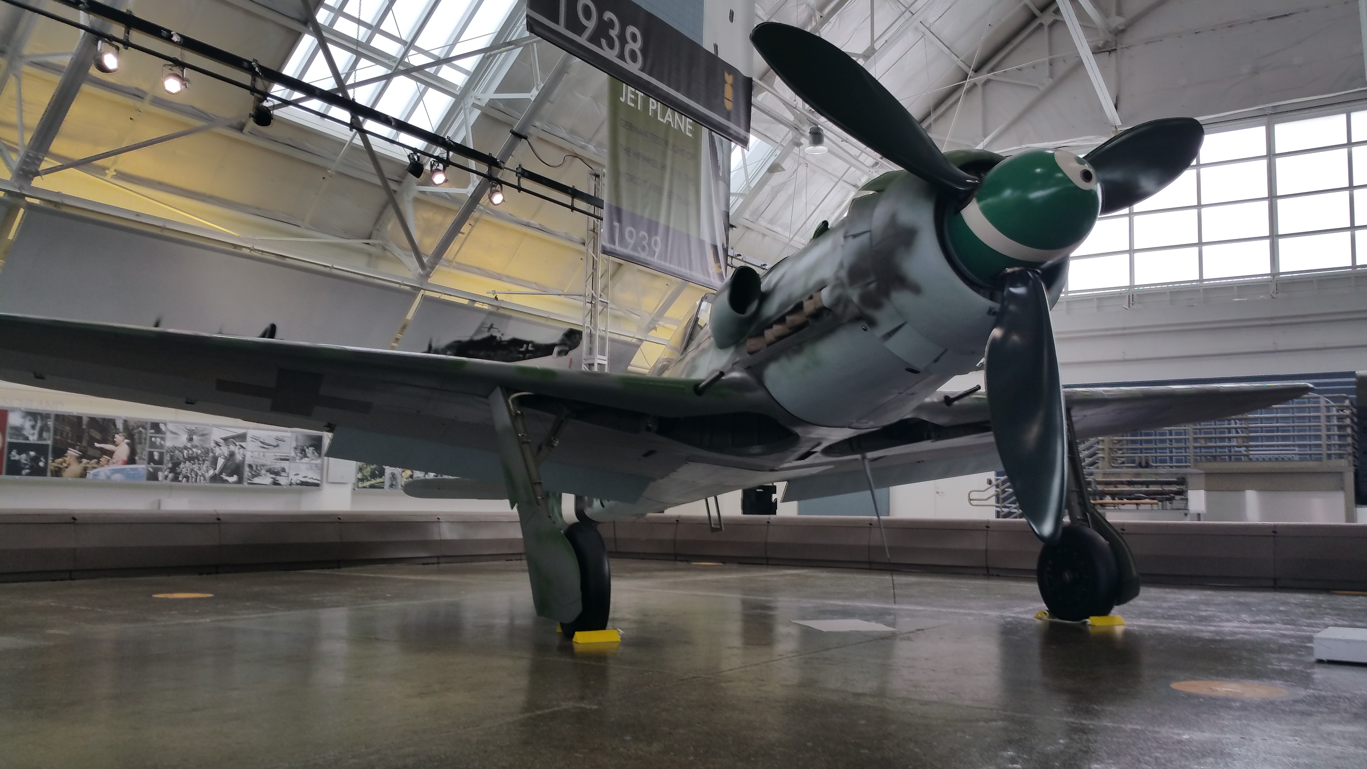 FW-190 Dora front